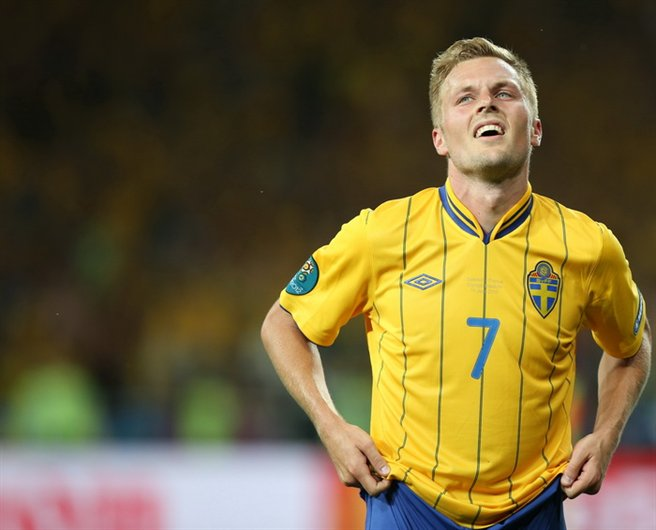 Sebastian Larsson at the Euro 2012 match against France